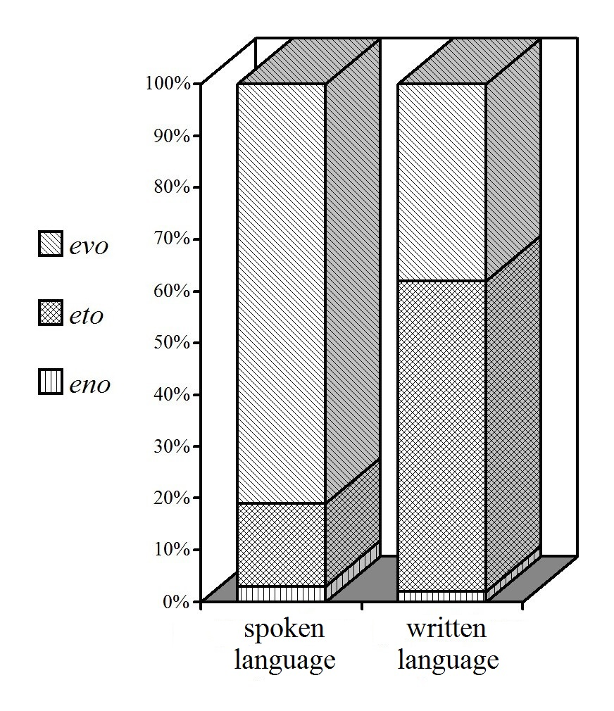 English translation of the File:Frequency of demonstratives.jpg